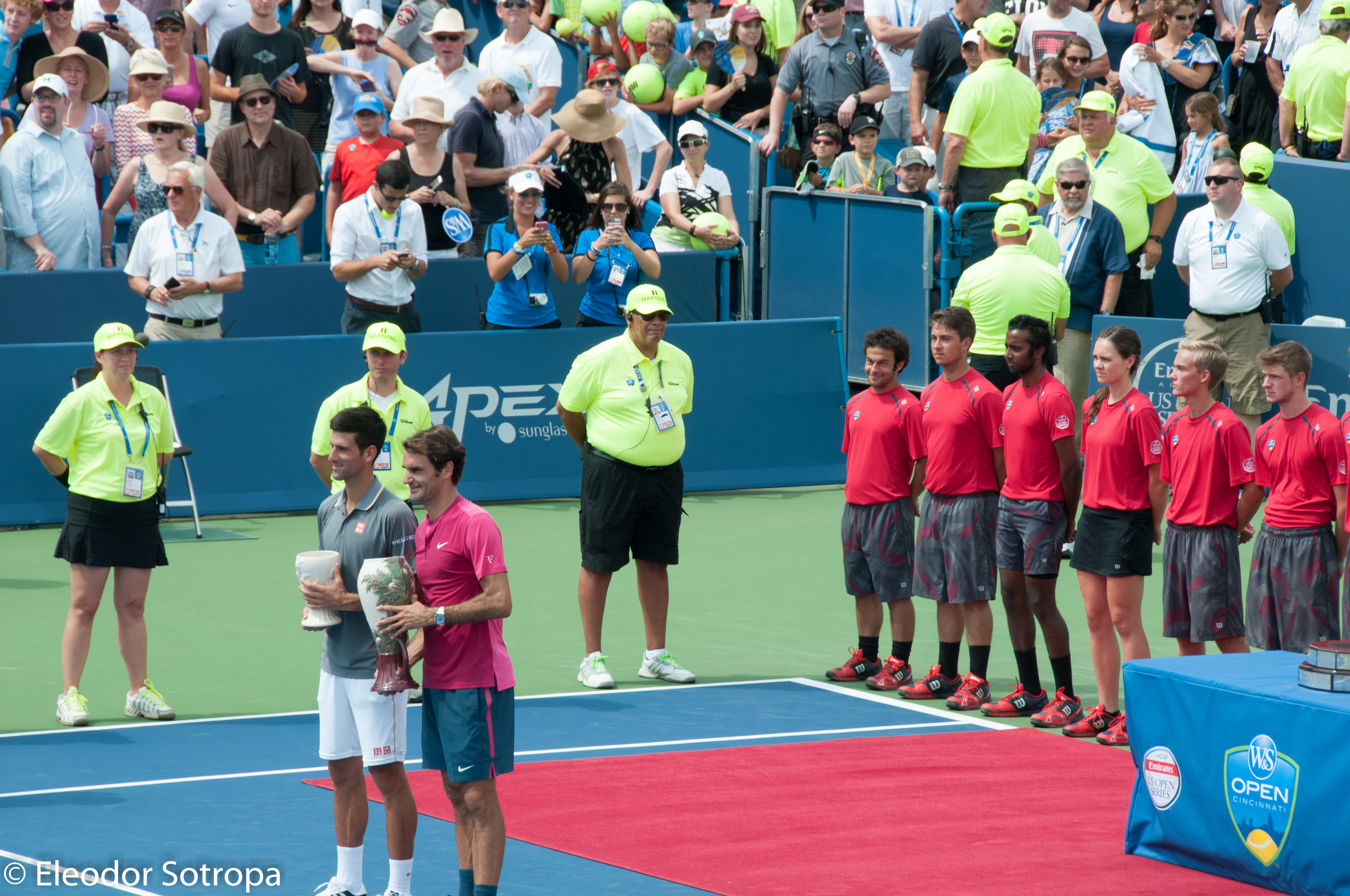 Cincinnati-Tennis-2015-ATP-WTA-148